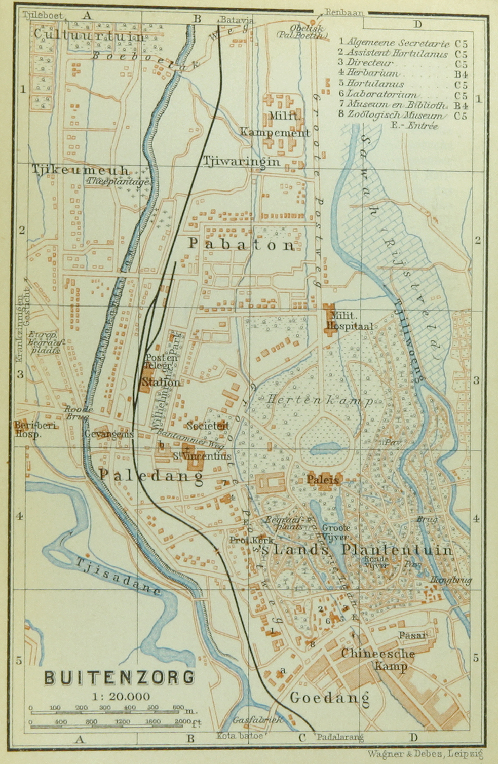 Map of the colonial hill town of Buitenzorg, modern Bogor, ca 1914 (1:20,000). Labelled in Dutch.